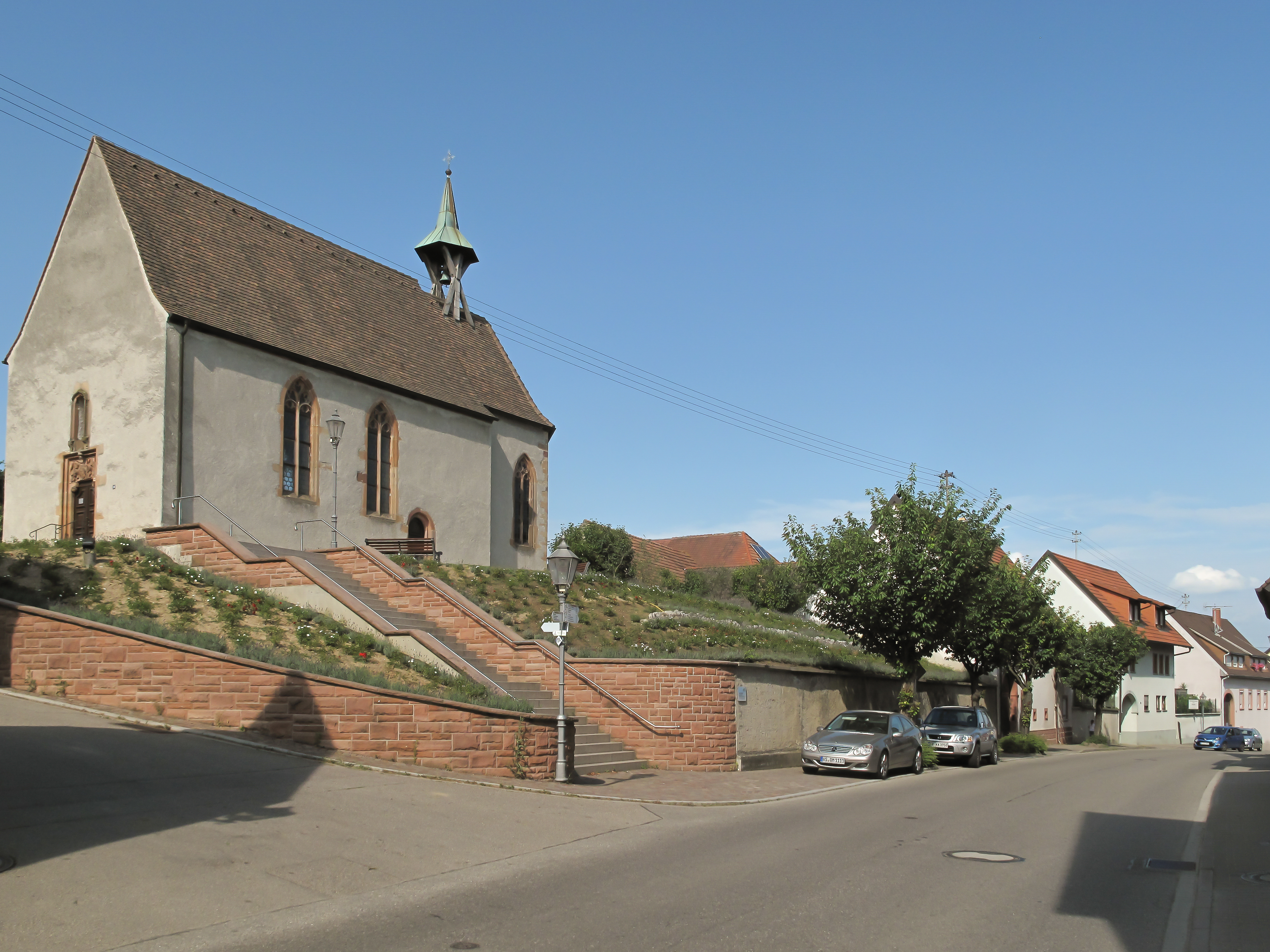 Bötzingen, chapel: die Sankt Alban Kapelle